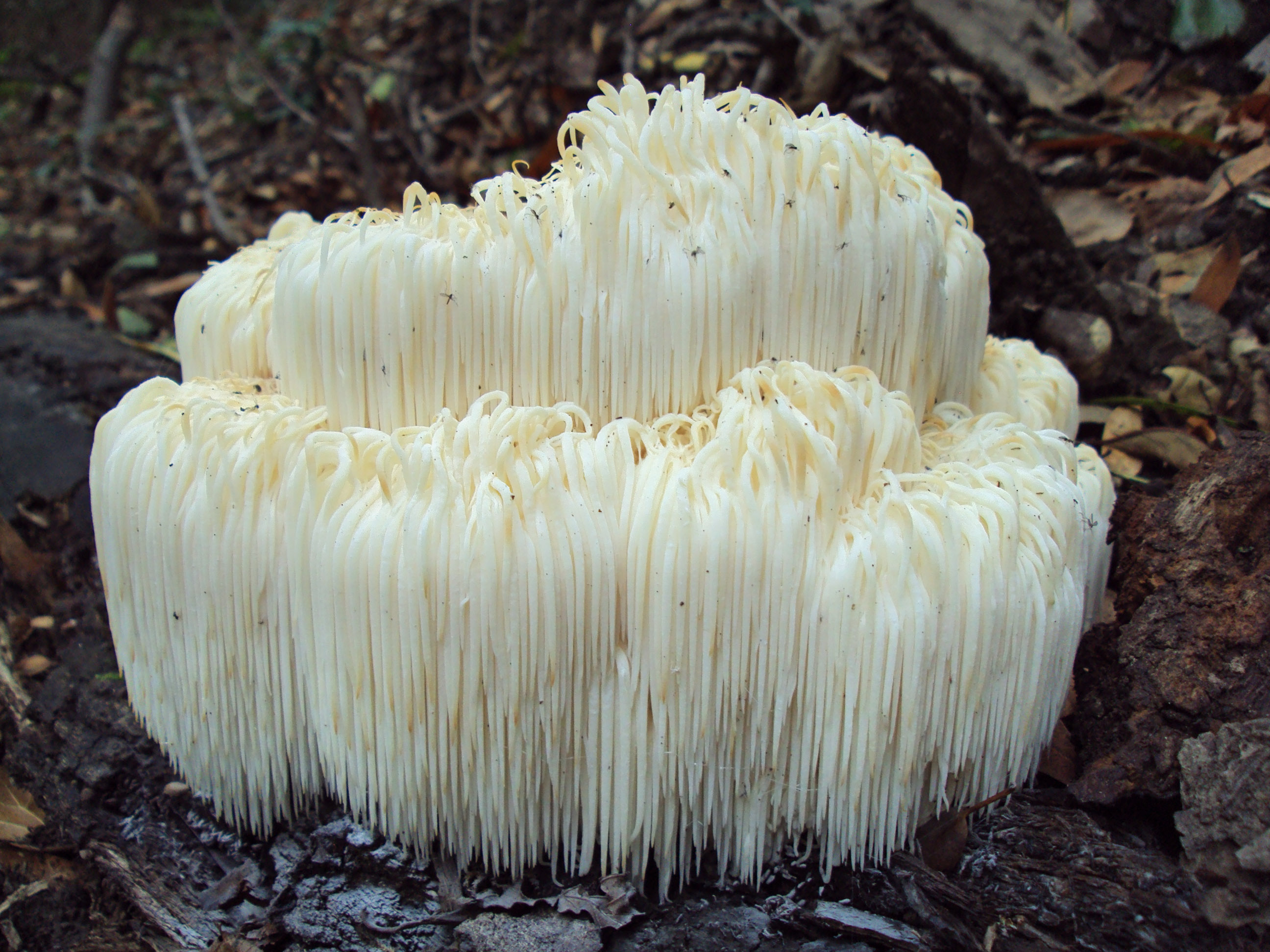 Hericium erinaceus (Bull.) Pers., Briones Regional Park, Contra Costa Co., California, USA